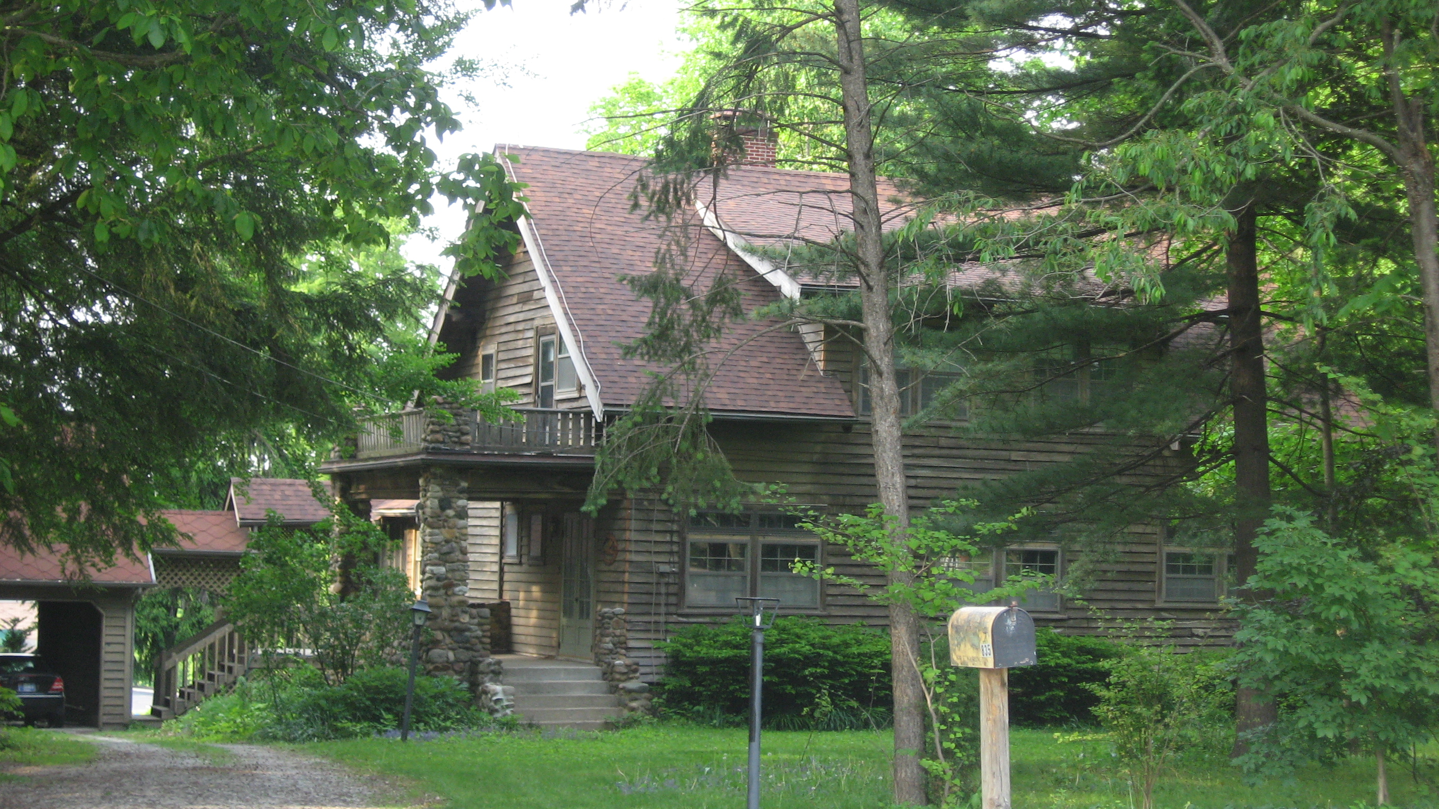 Front of The Boulders, located at 835 E. Washington Street in Greencastle, Indiana, United States. Built in 1910, it is listed on the National Register of Historic Places.